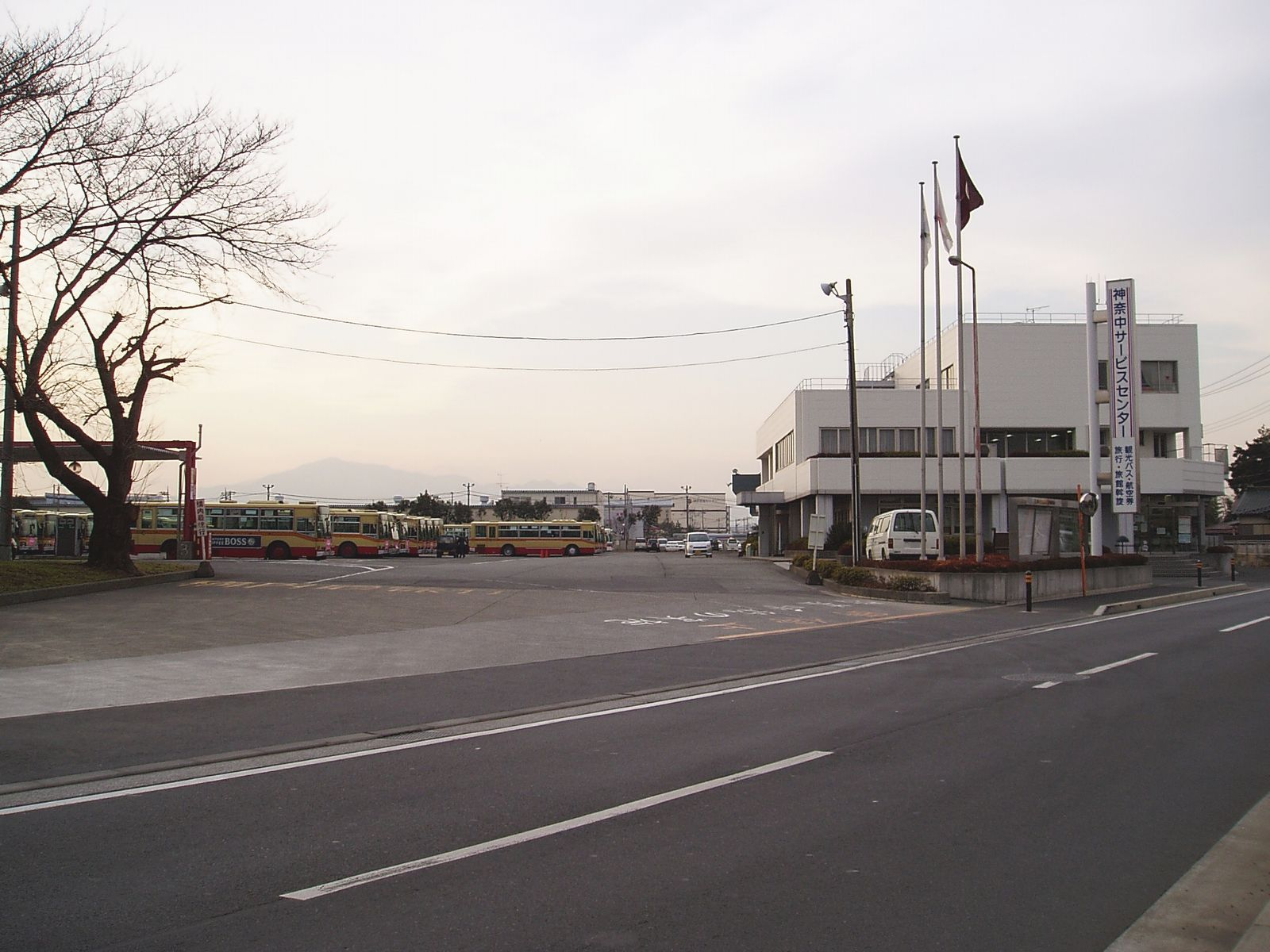 Kanachu Ayase Branch